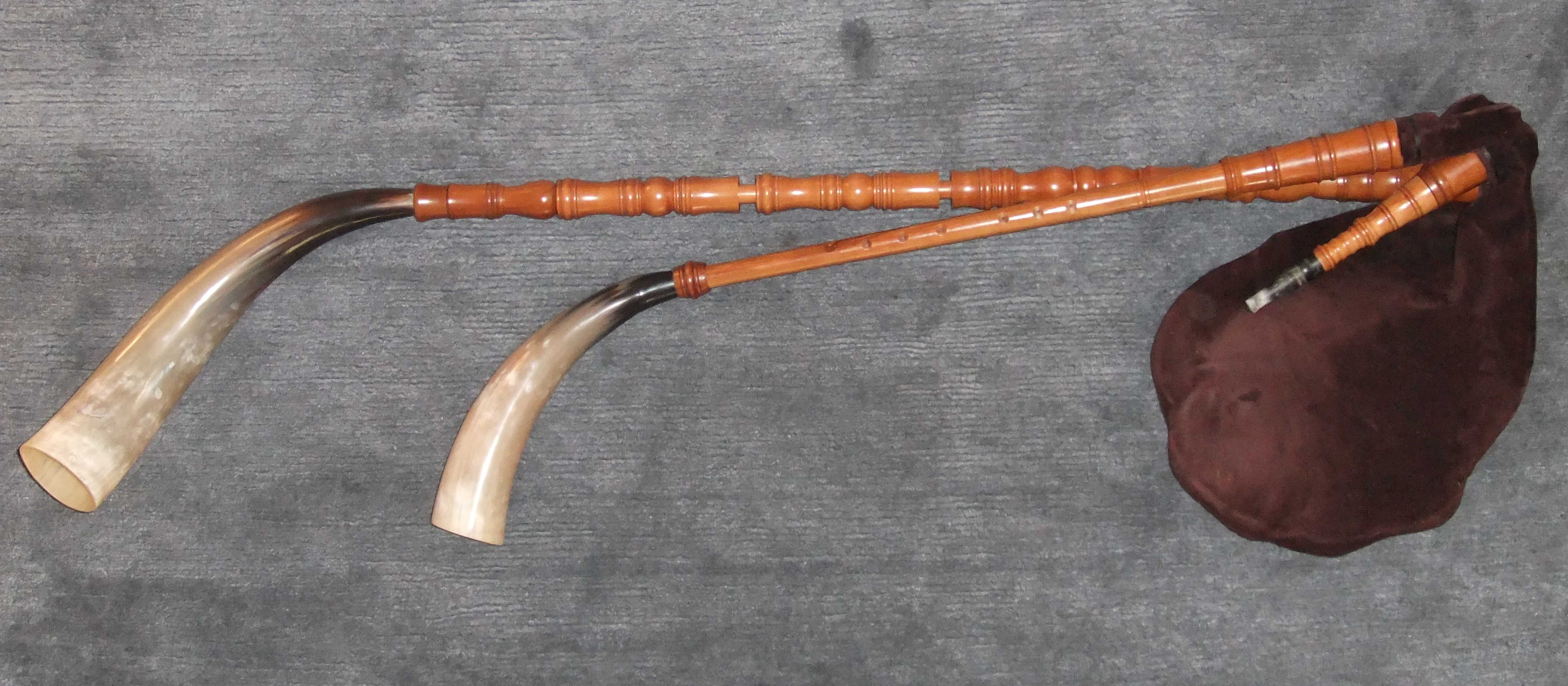 Bagpipe, Praetorius Bock, made by J. Ross, cylindrical chanter c-d', double reed